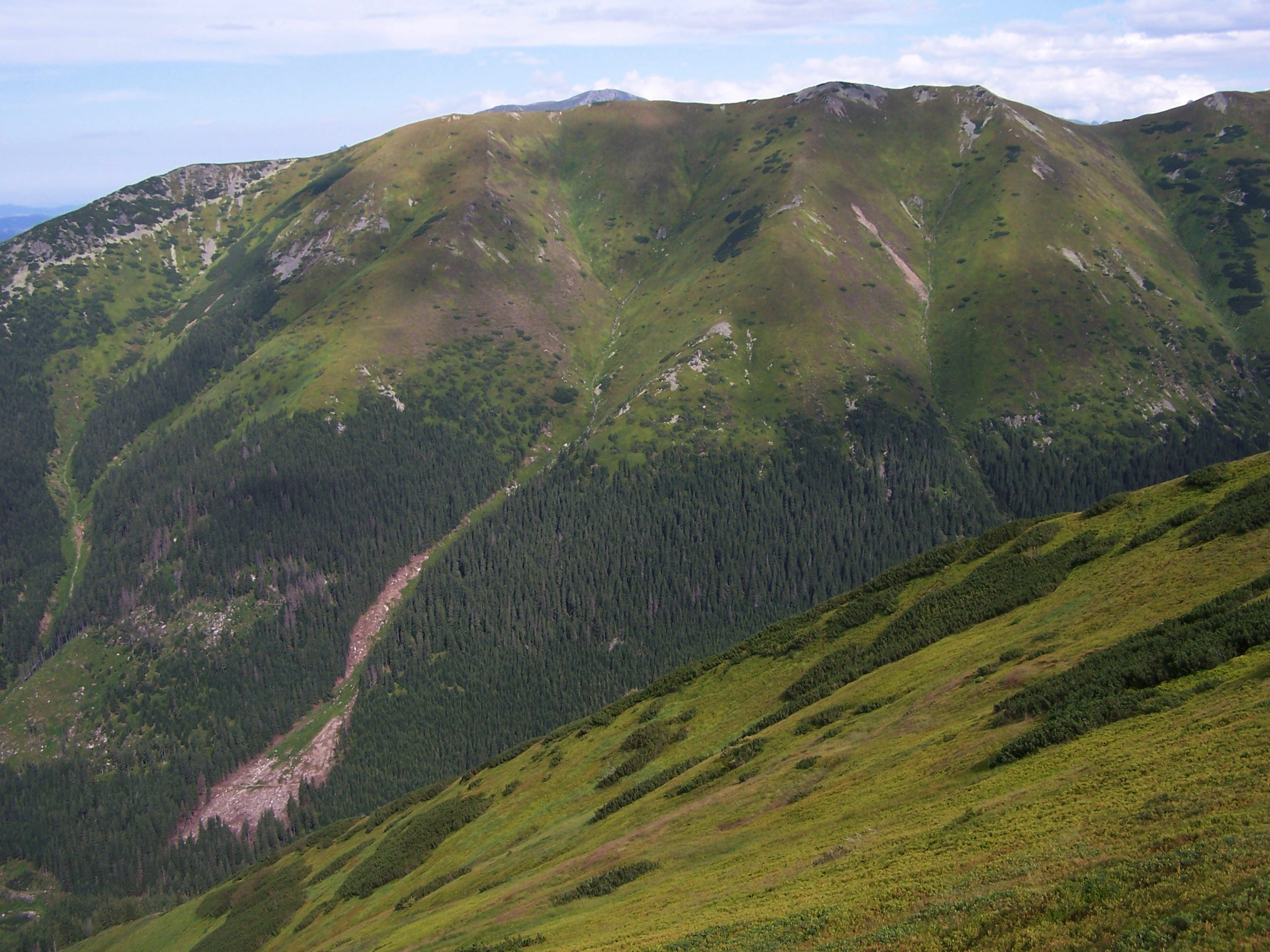 Ornak (West Tatra Mountains)